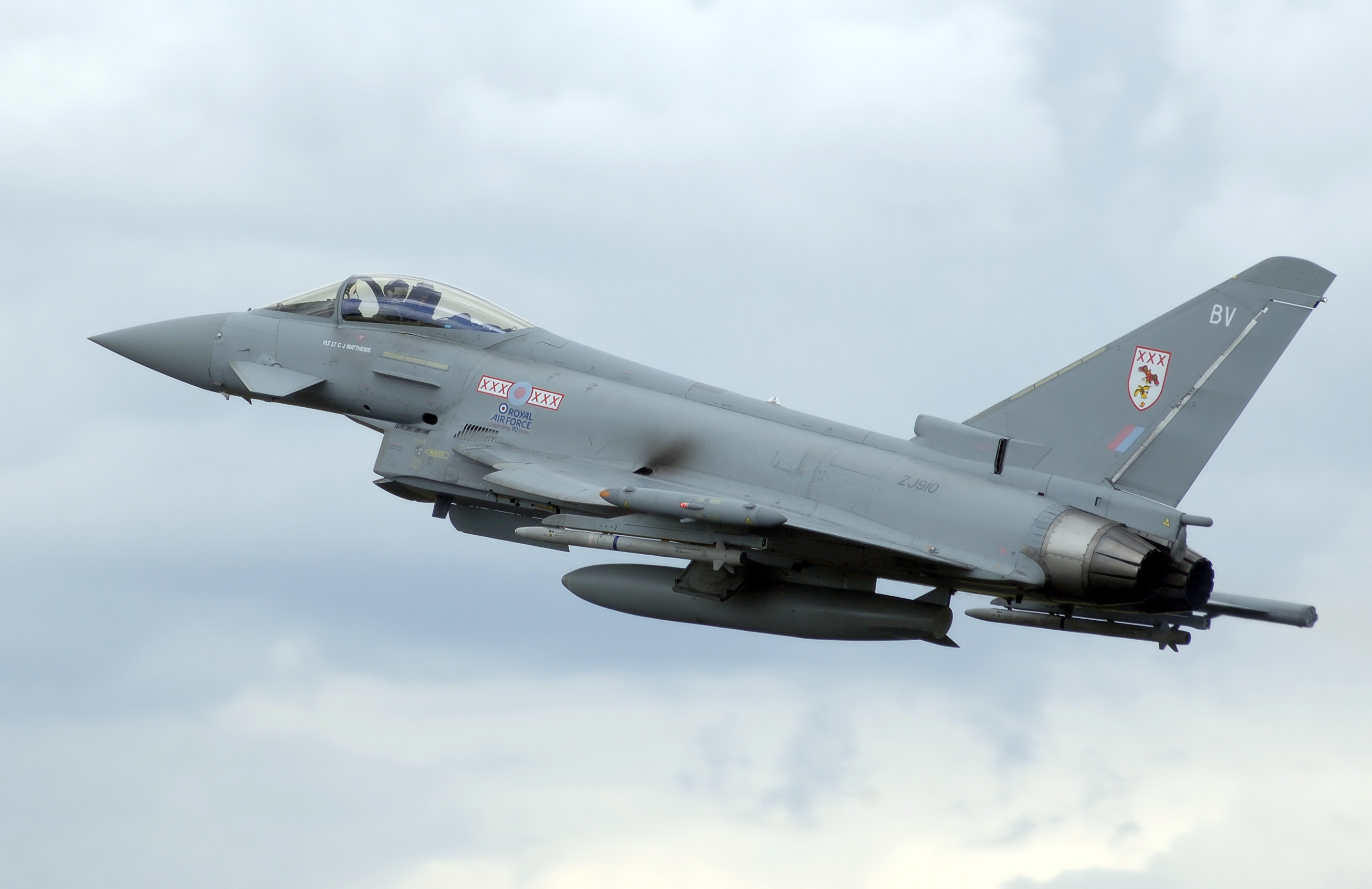 Royal Air Force Eurofighter EF-2000 Typhoon F2 (ZJ910) at the 2008 Air Day, Kemble Airport, Gloucestershire, England. Under the small roundel below the cockpit it says "Royal Air Force celebrating 90 years". This Aircraft is from 29 Squadron